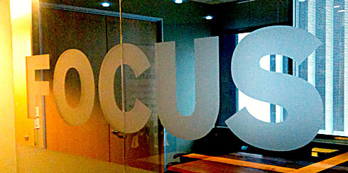 I had a meeting at and took some pictures. I took this shot in their conference room.